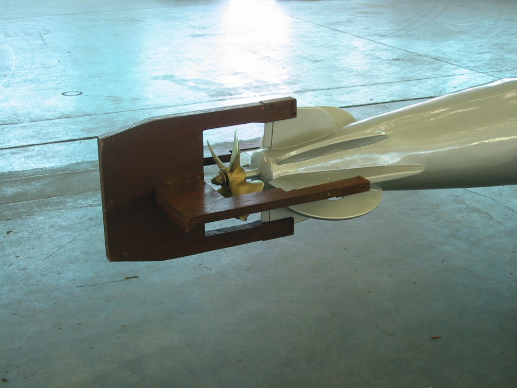 Photographed at the Pacific Aviation Museum on Ford Island in the middle of Pearl Harbor, Hawaii.